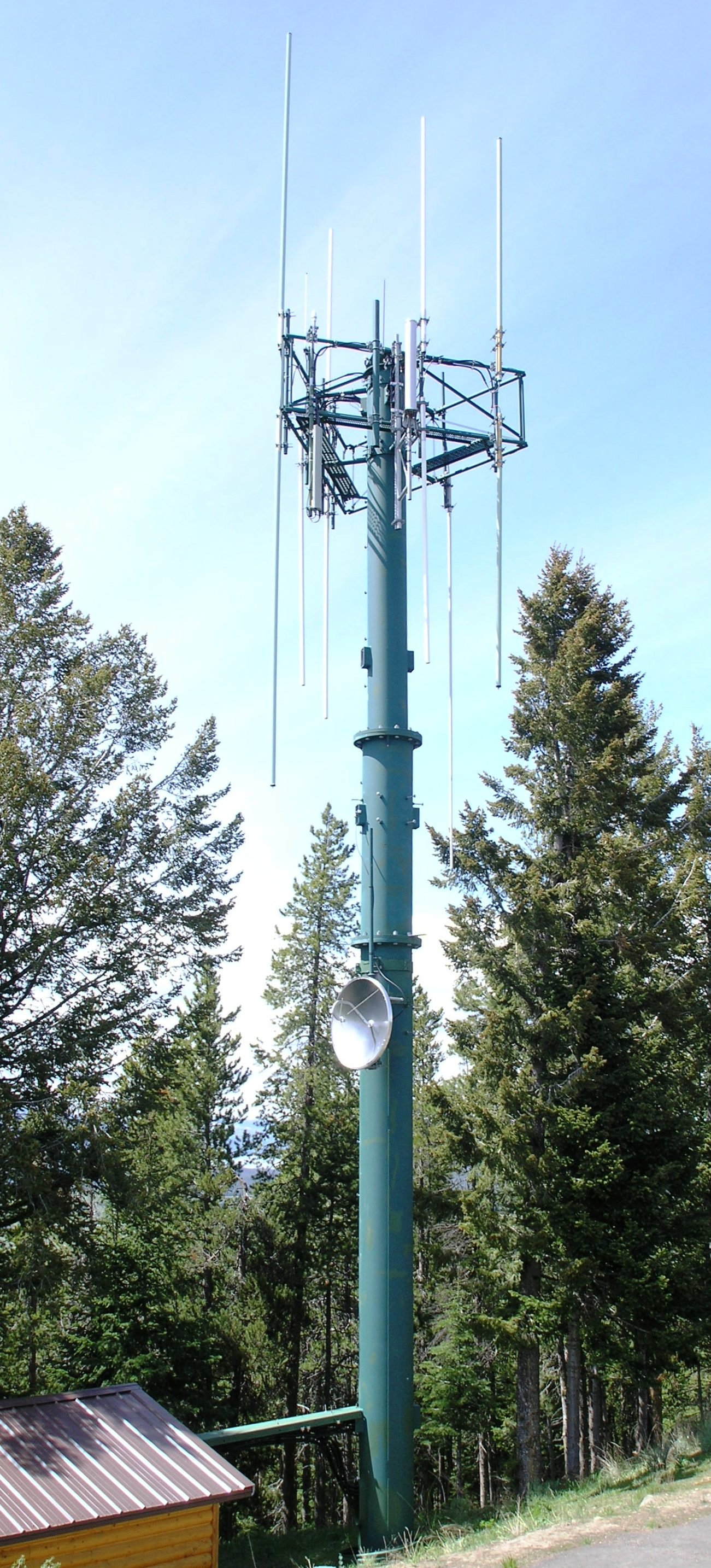 Photo in or around Grand Teton National Park